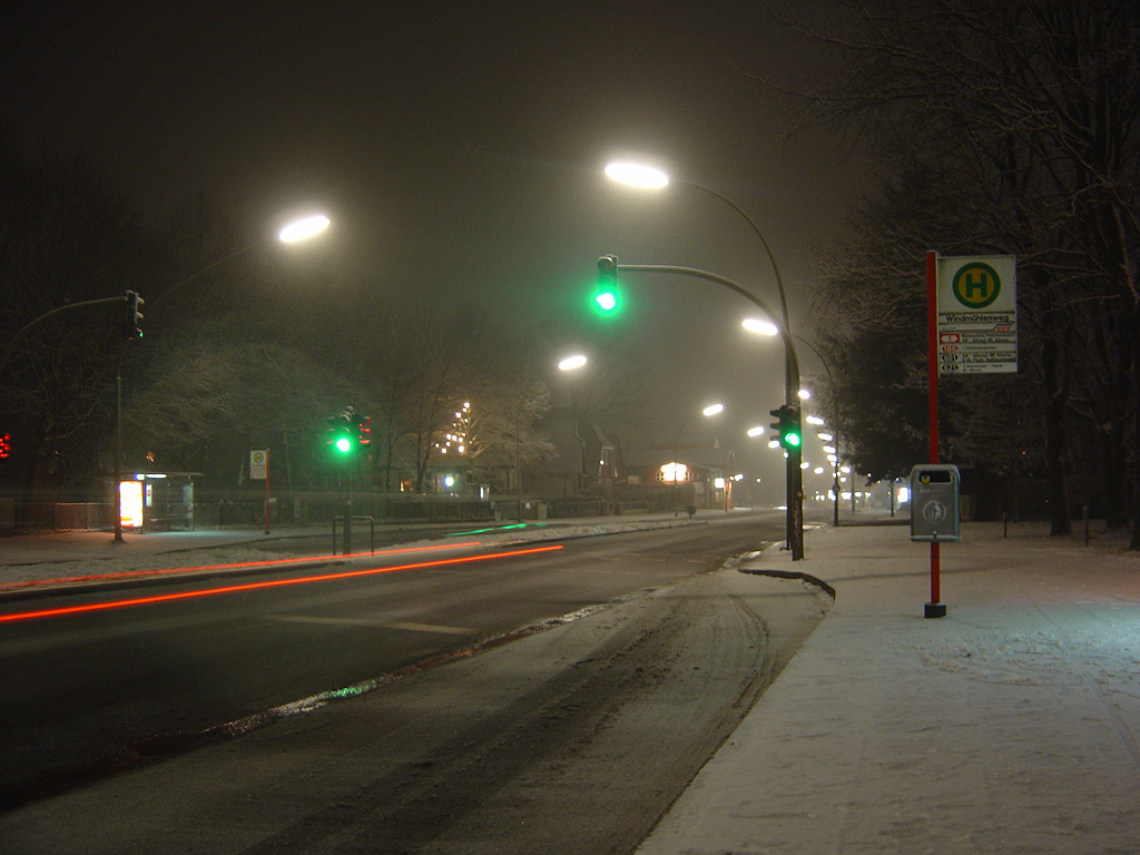 The german Bundesstraße 431 at Hamburg city, Gross Flottbek district, in snowy condition.